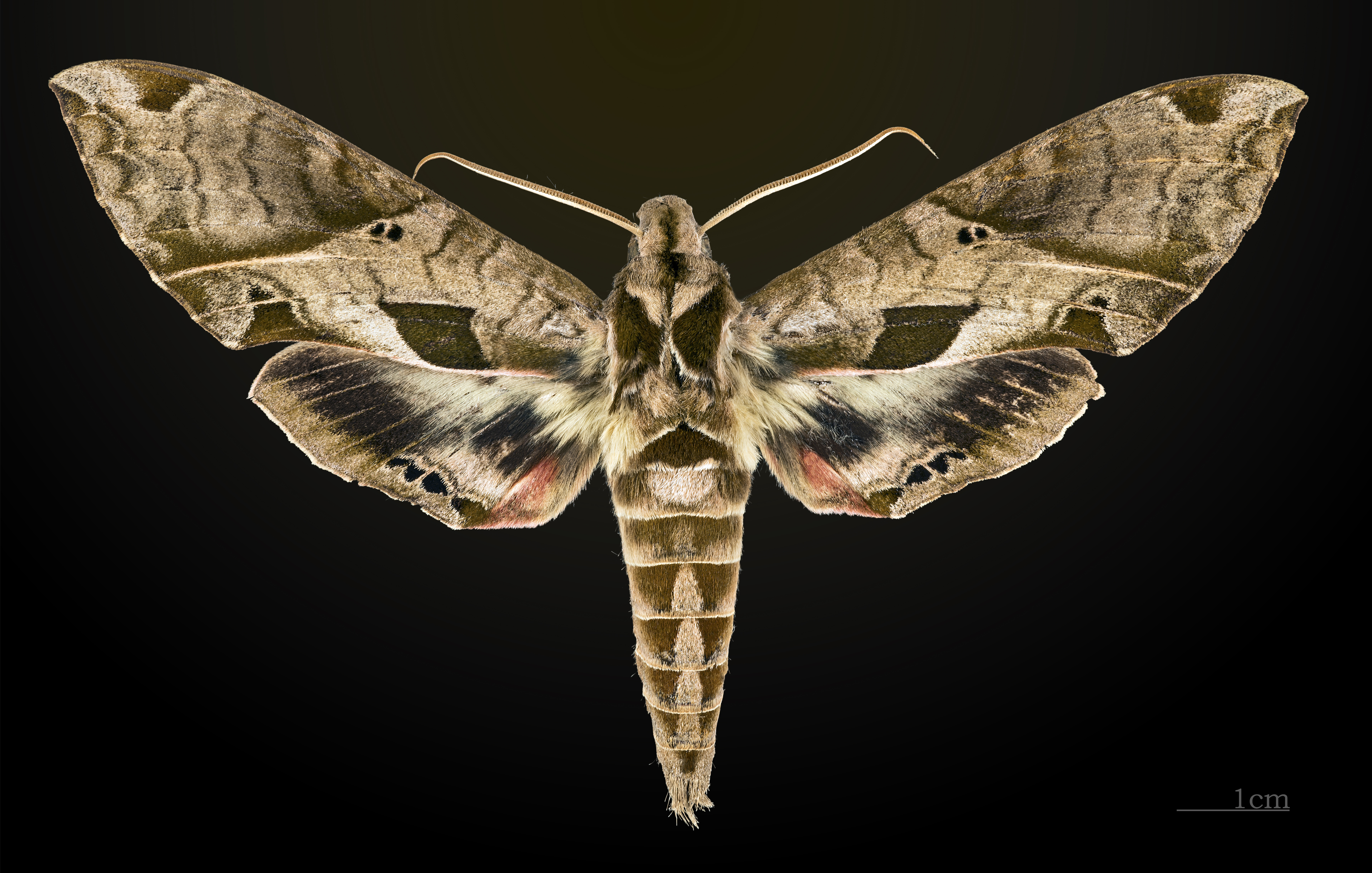 Eumorpha analis - Dorsal side Collection of the Mathematician Laurent Schwartz